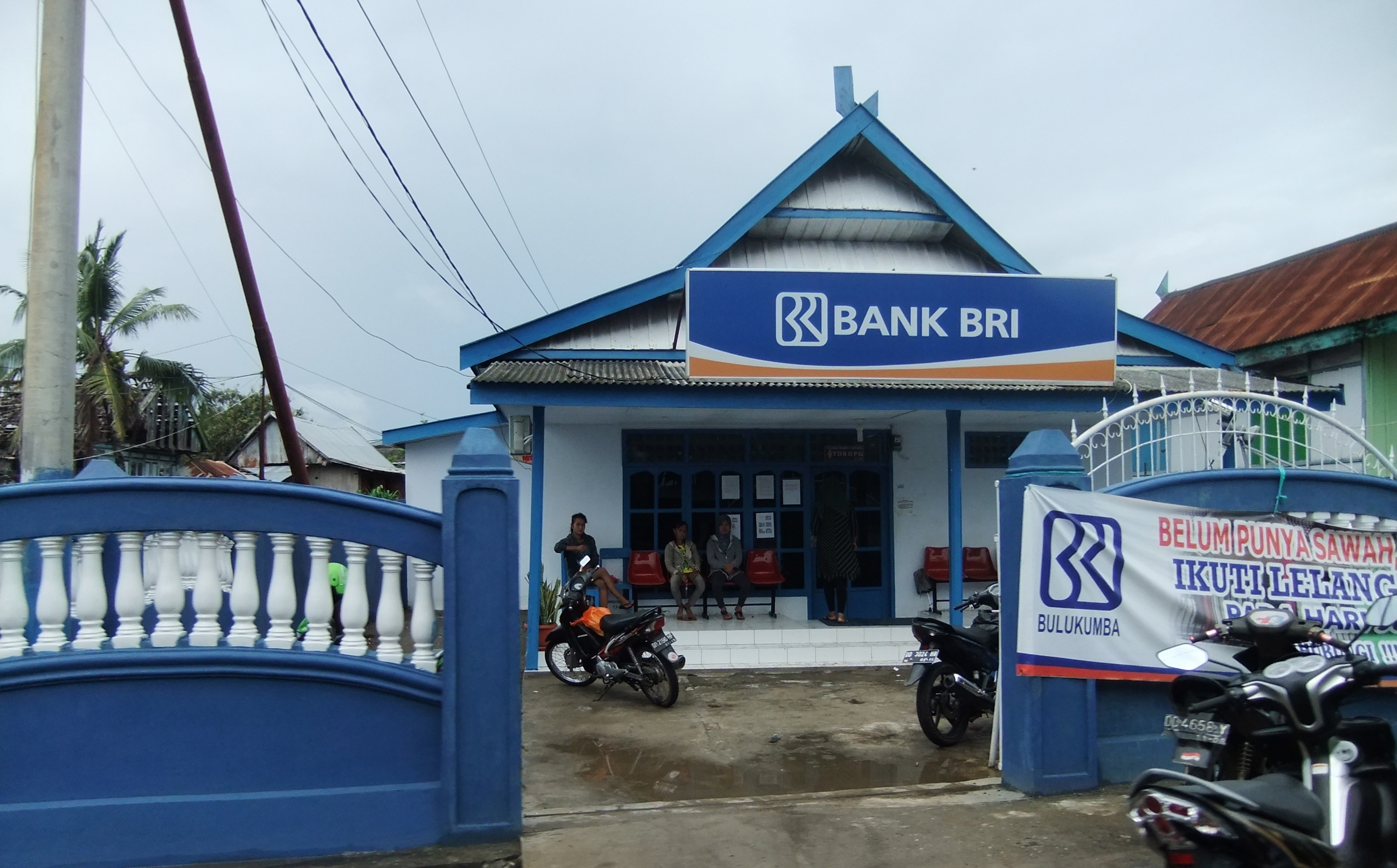 Bank BRI, Bulukumba Regency, South Sulawesi